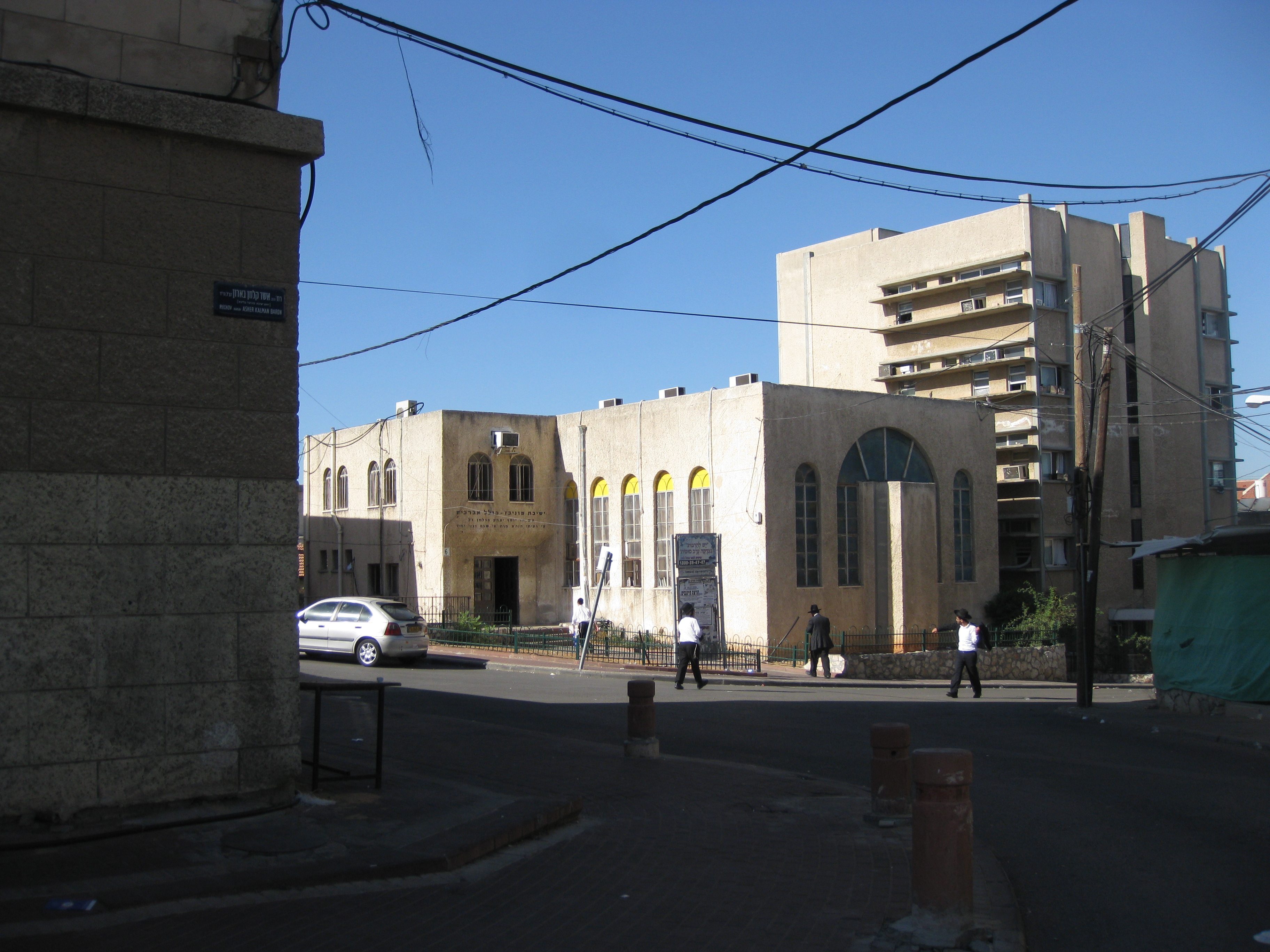 Ponevezh Yeshiva in Bnei Brak